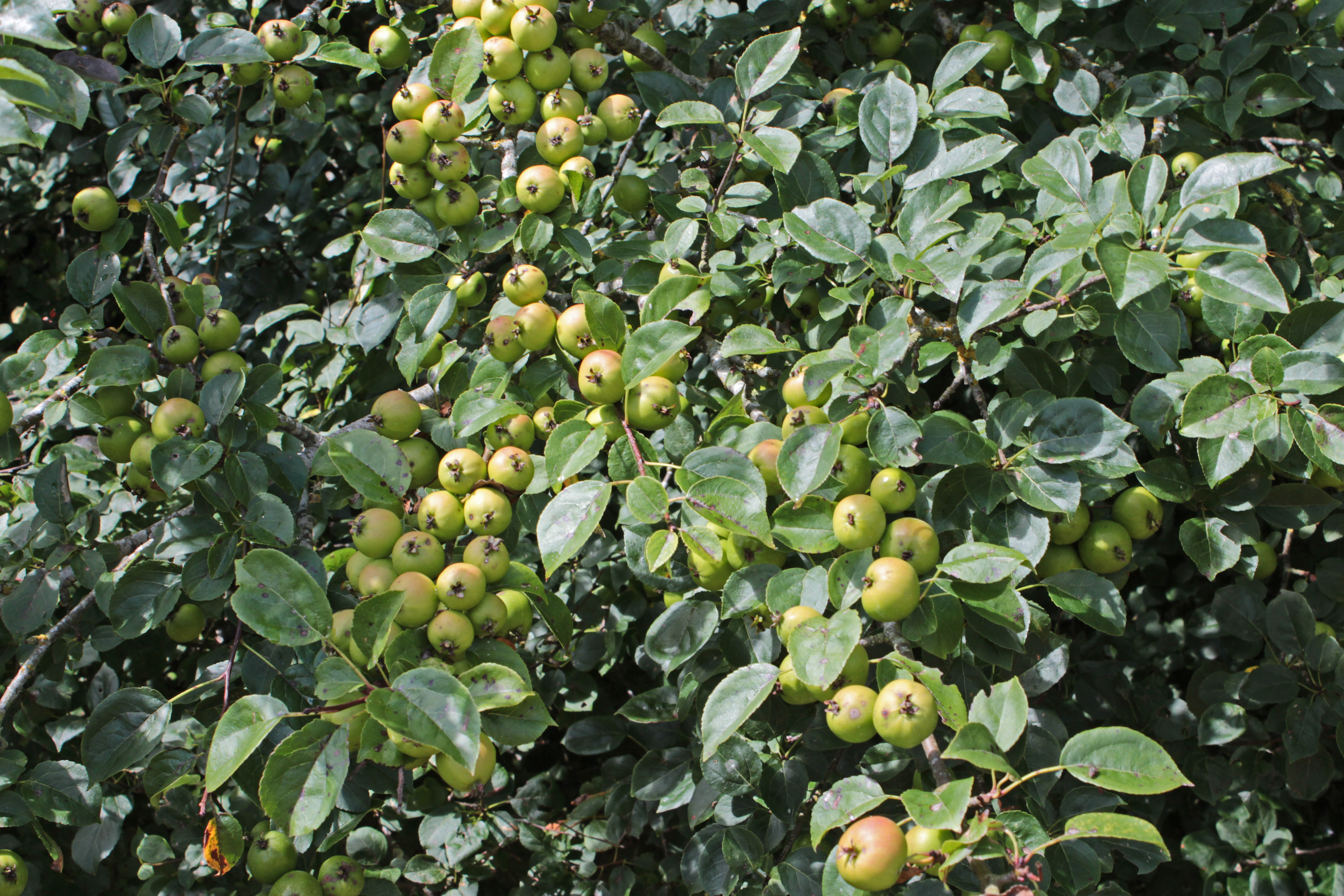 Malus sylvestris: Fruits